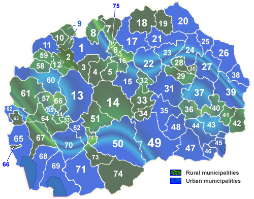 Opshtinas of the Republic of Macedonia